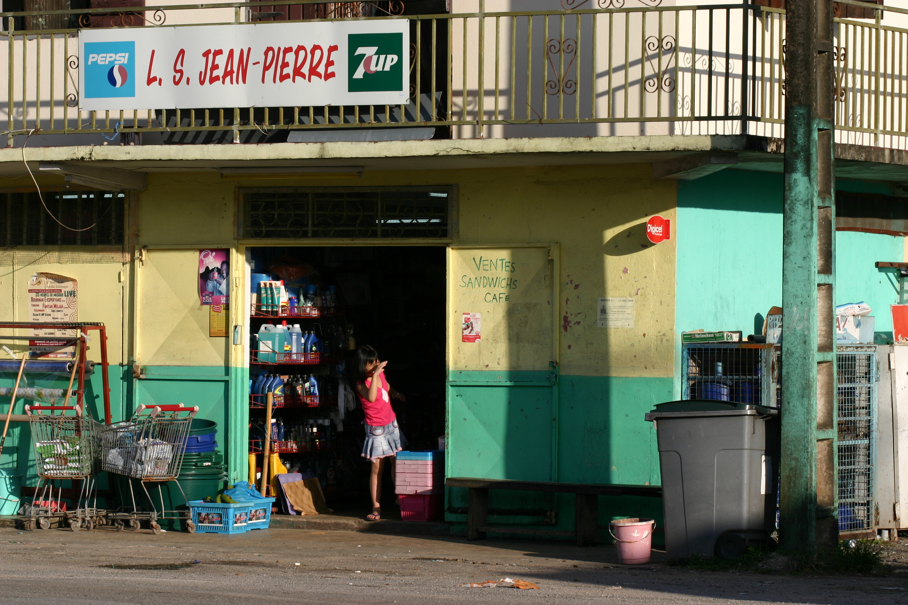 Iracoubo, French Guiana, general store L. S. Jean-Pierre